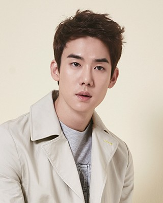 Yoo Yeon-seok - Bean Pole catalogue 2015 Spring-Summer